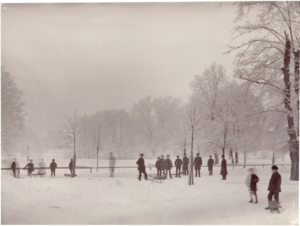 People enjoying the winter in Humlegården in Stockholm city.